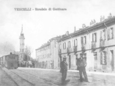 Vercelli, Stradello di Gattinara